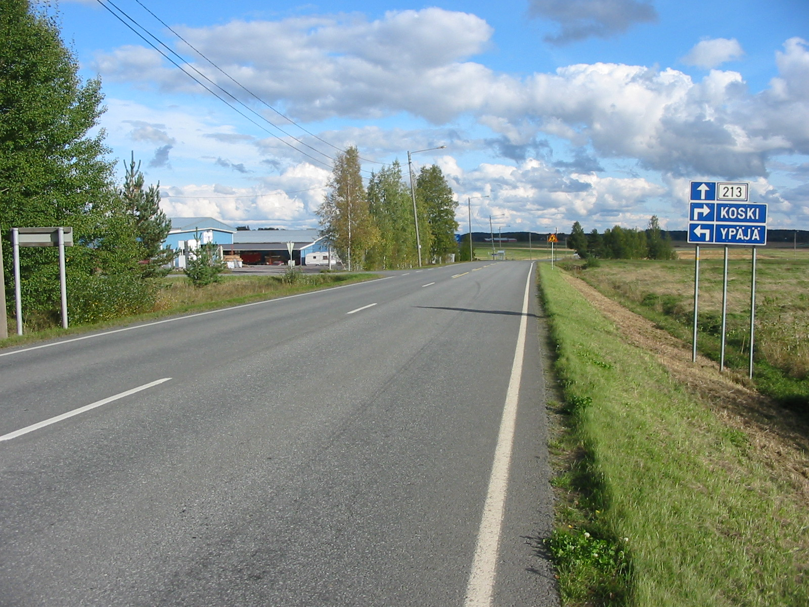 National road 213 in Manninen, Ypäjä, Tavastia Proper, Finland.